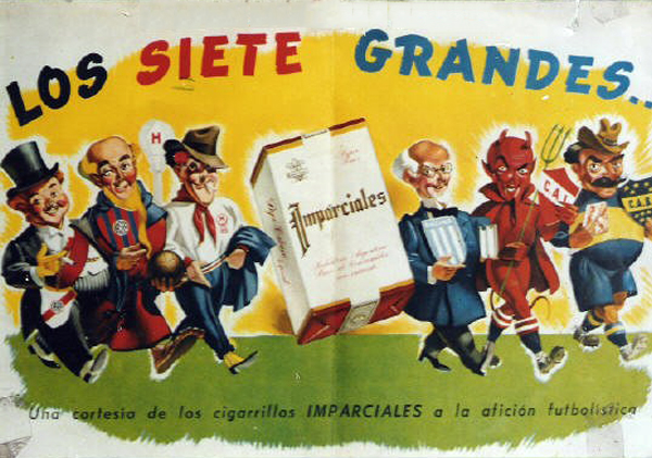 A magazine advertisement by the cigarettes brand Imparciales that referred to the most popular Argentine football teams by then: Boca Juniors, River Plate, Independiente, San Lorenzo, Racing and Huracán. The 6 teams plus the tobacco brand were mentioned as "The Big Seven".